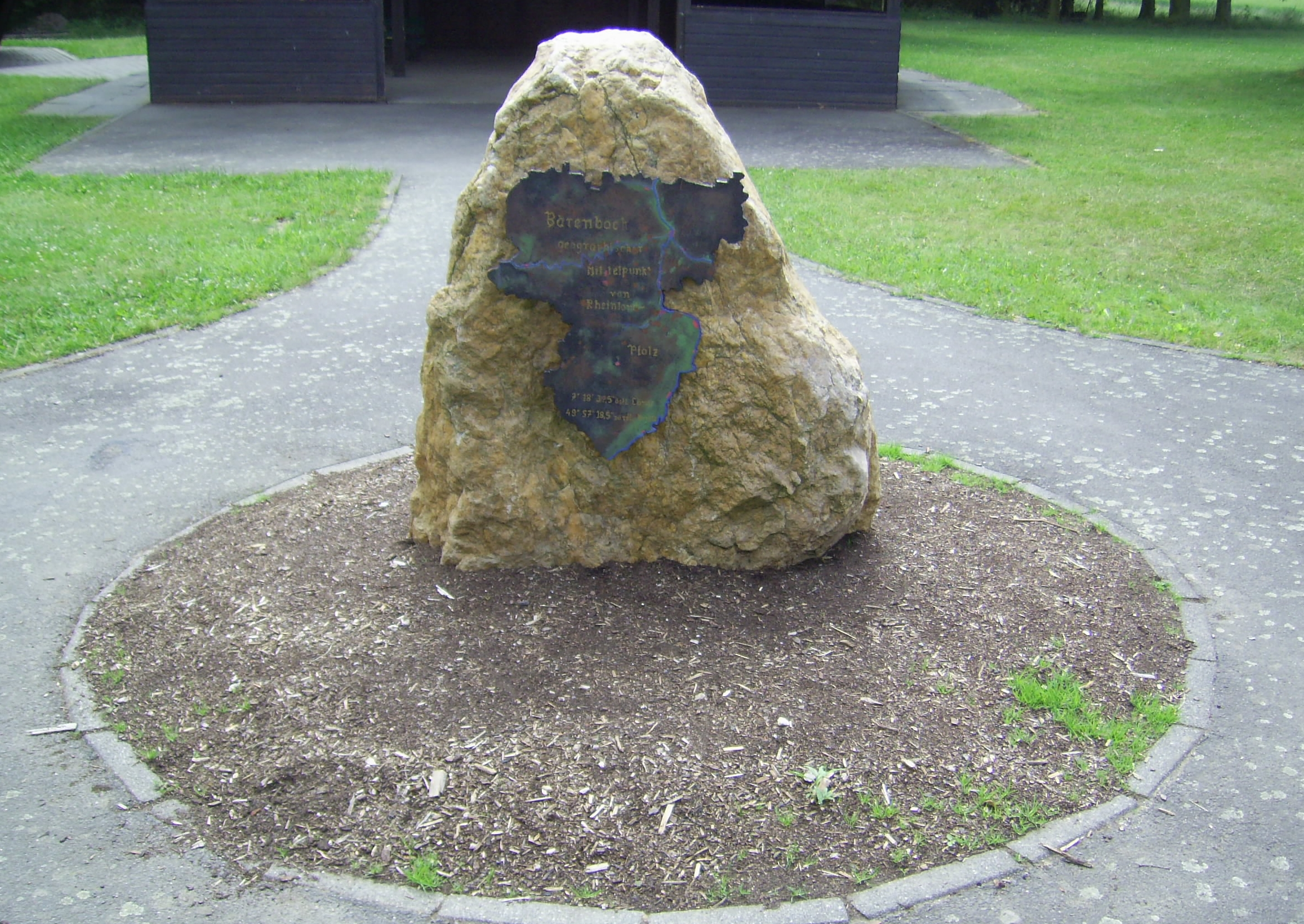 Center of Rhineland-Palatinate near the village Bärenbach, Germany.